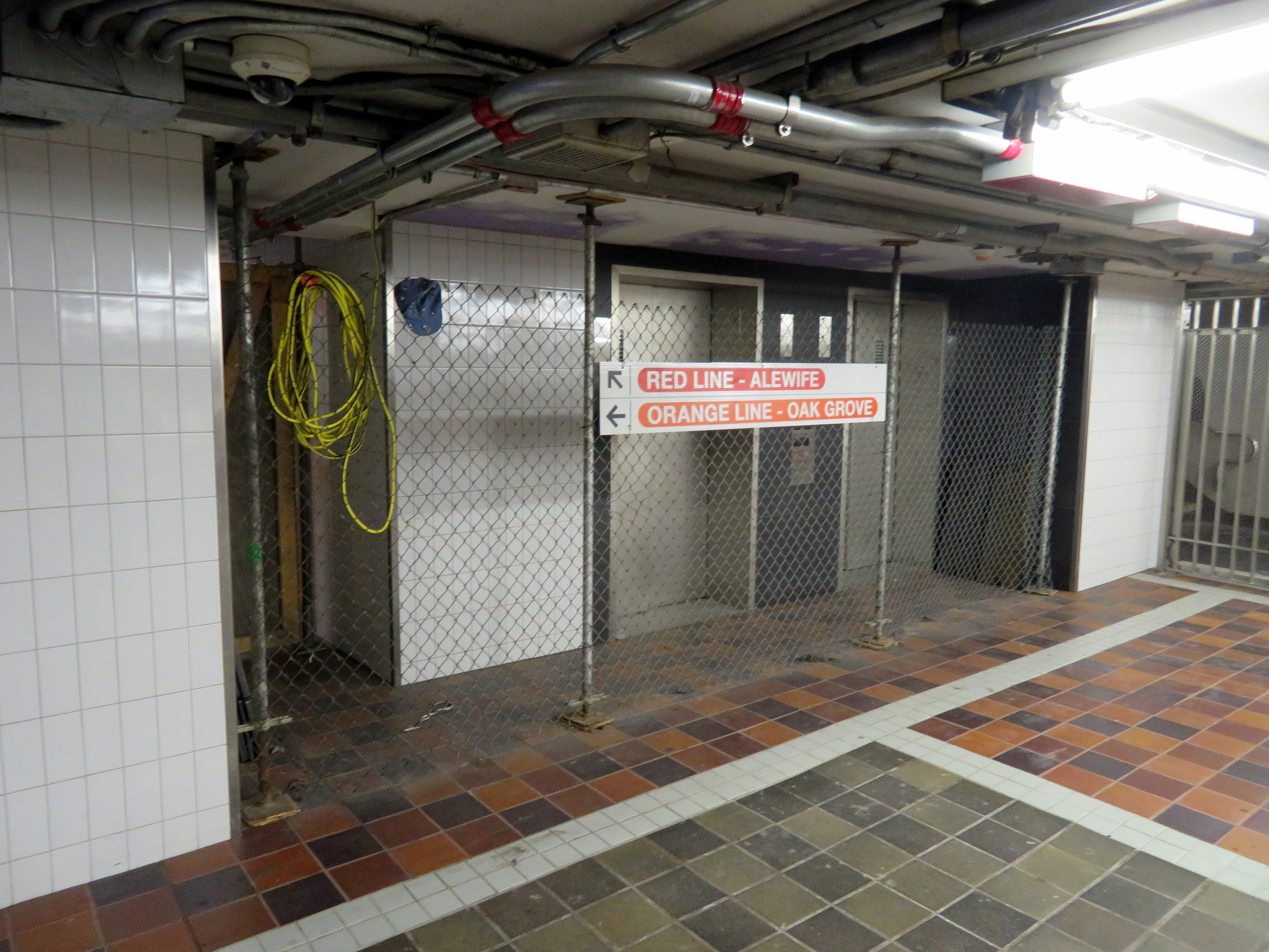 New elevators nearly completed at Downtown Crossing station in August 2018